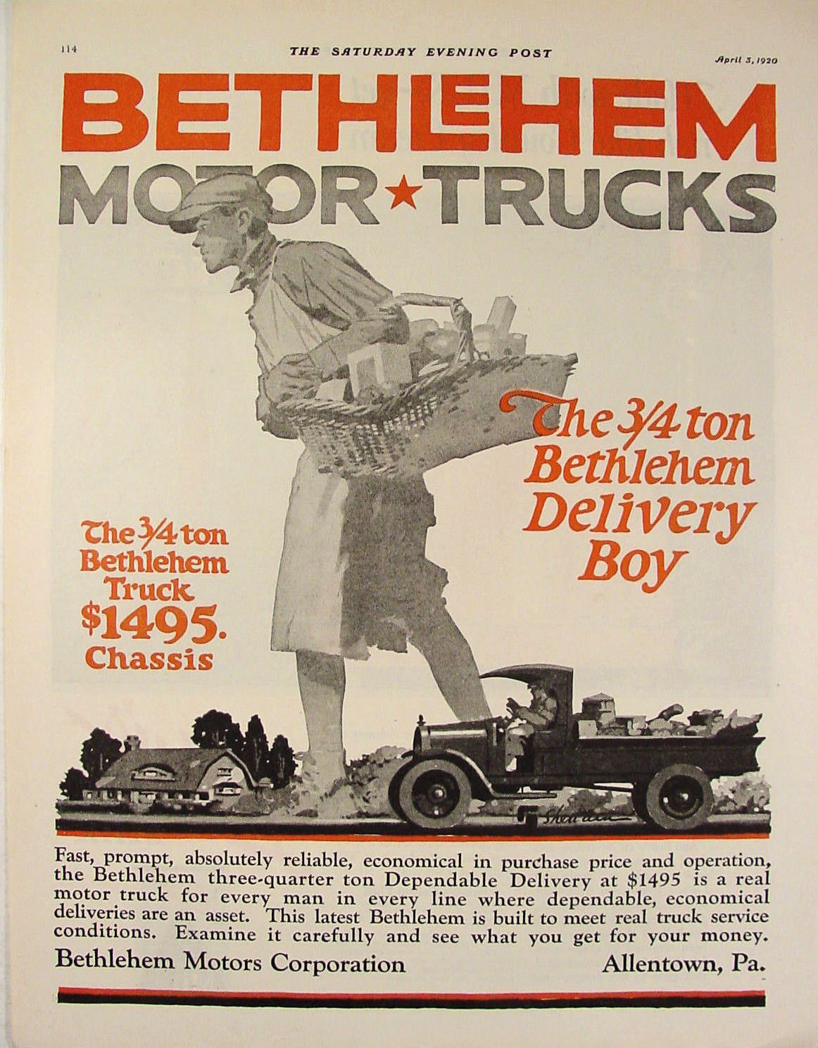 Bethlehem Motor Trucks Magazine Ad Allentown PA